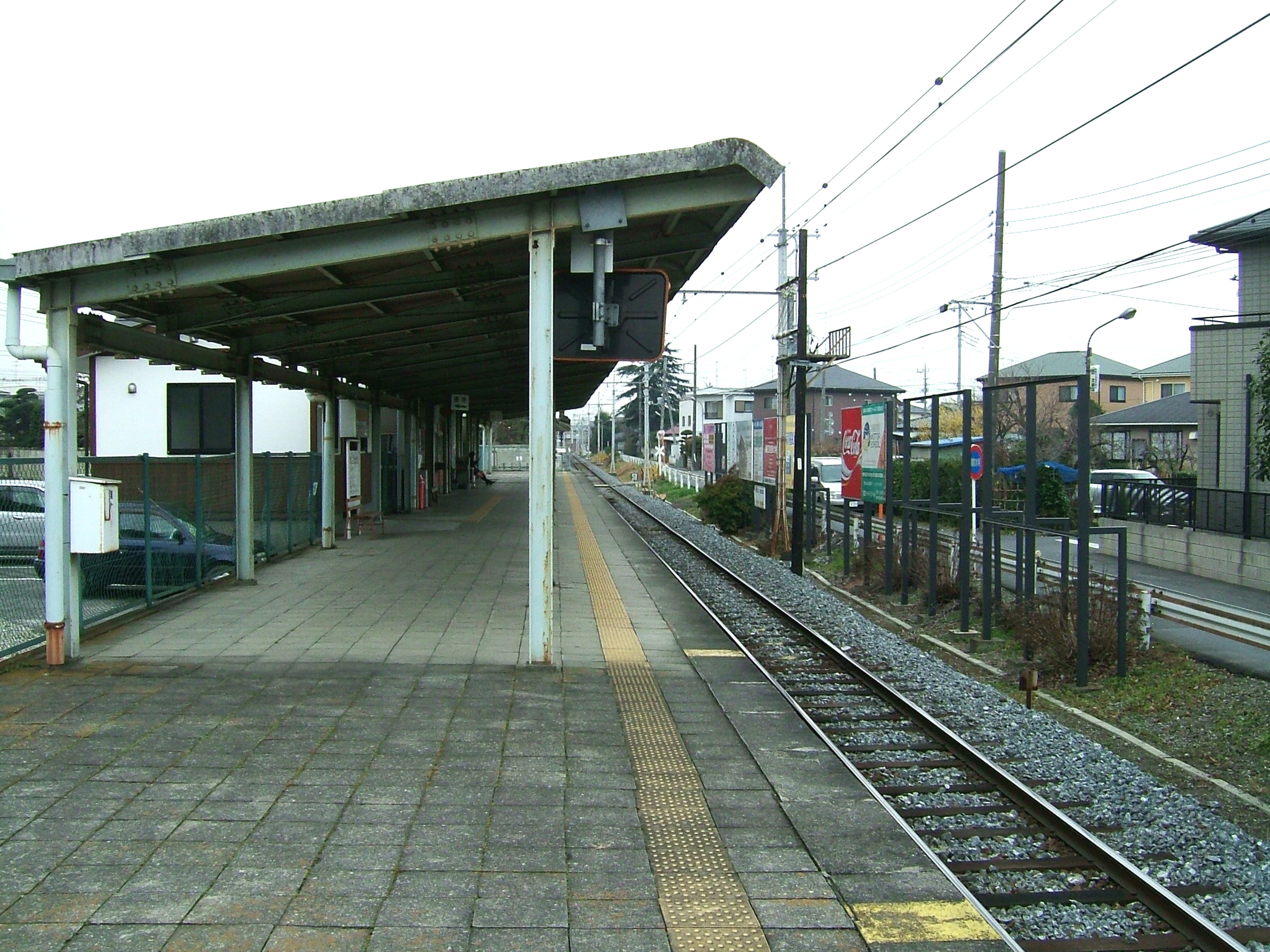 The platform at Higashi-Gyōda Station on the Chichibu Main Line in Gyōda city, Saitama Prefecture, Japan